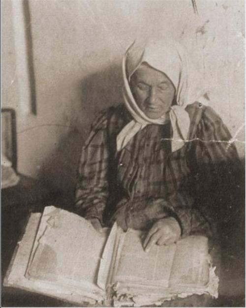 Observant Jewish woman in Vilna reading the ‘Tseno Ureno’